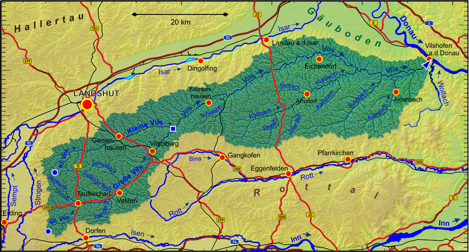 Map of the catchment area of the Vils river (enhanced area).